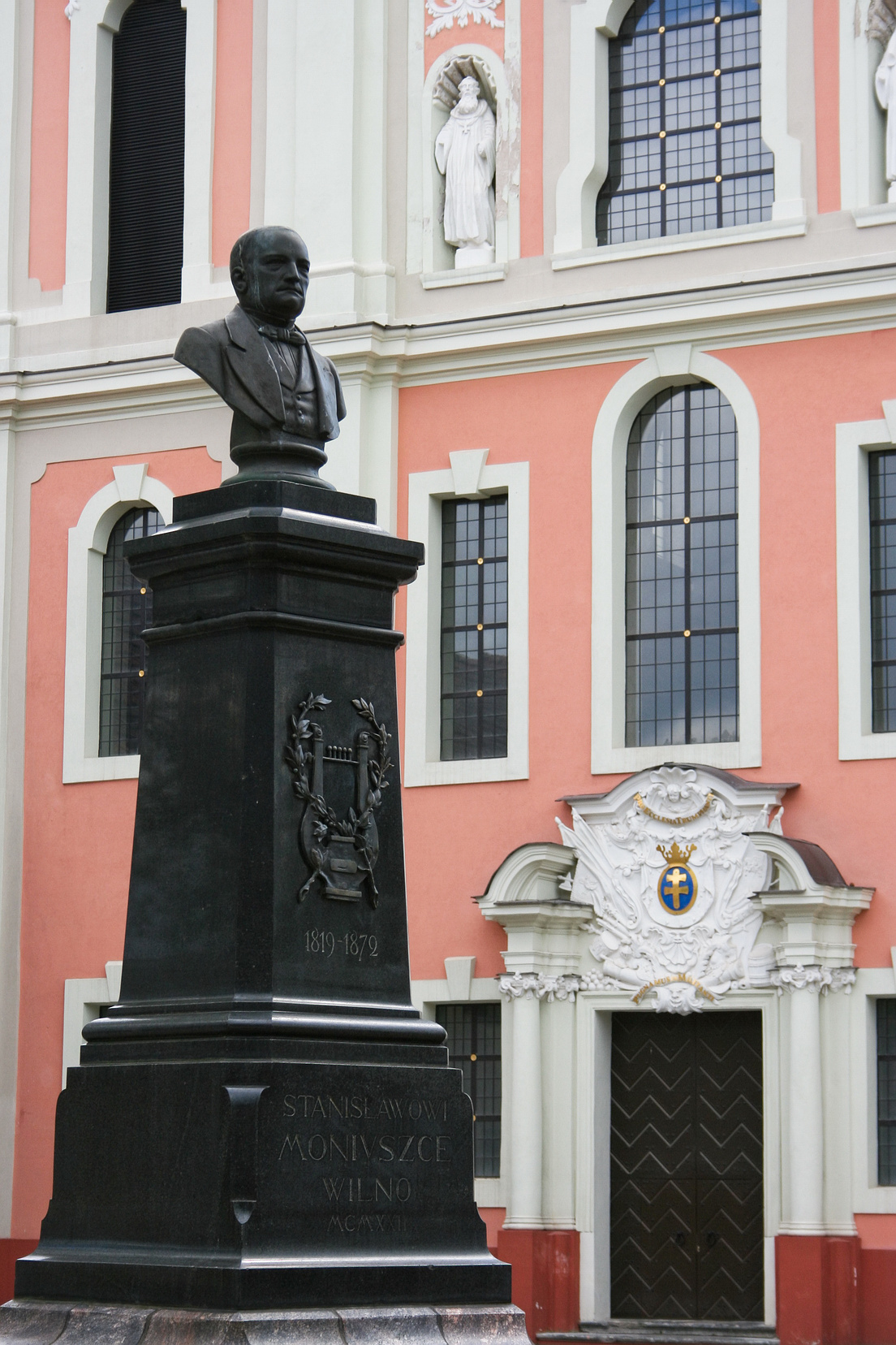 Stanisław Moniuszko bust in Vilno, Lithuania